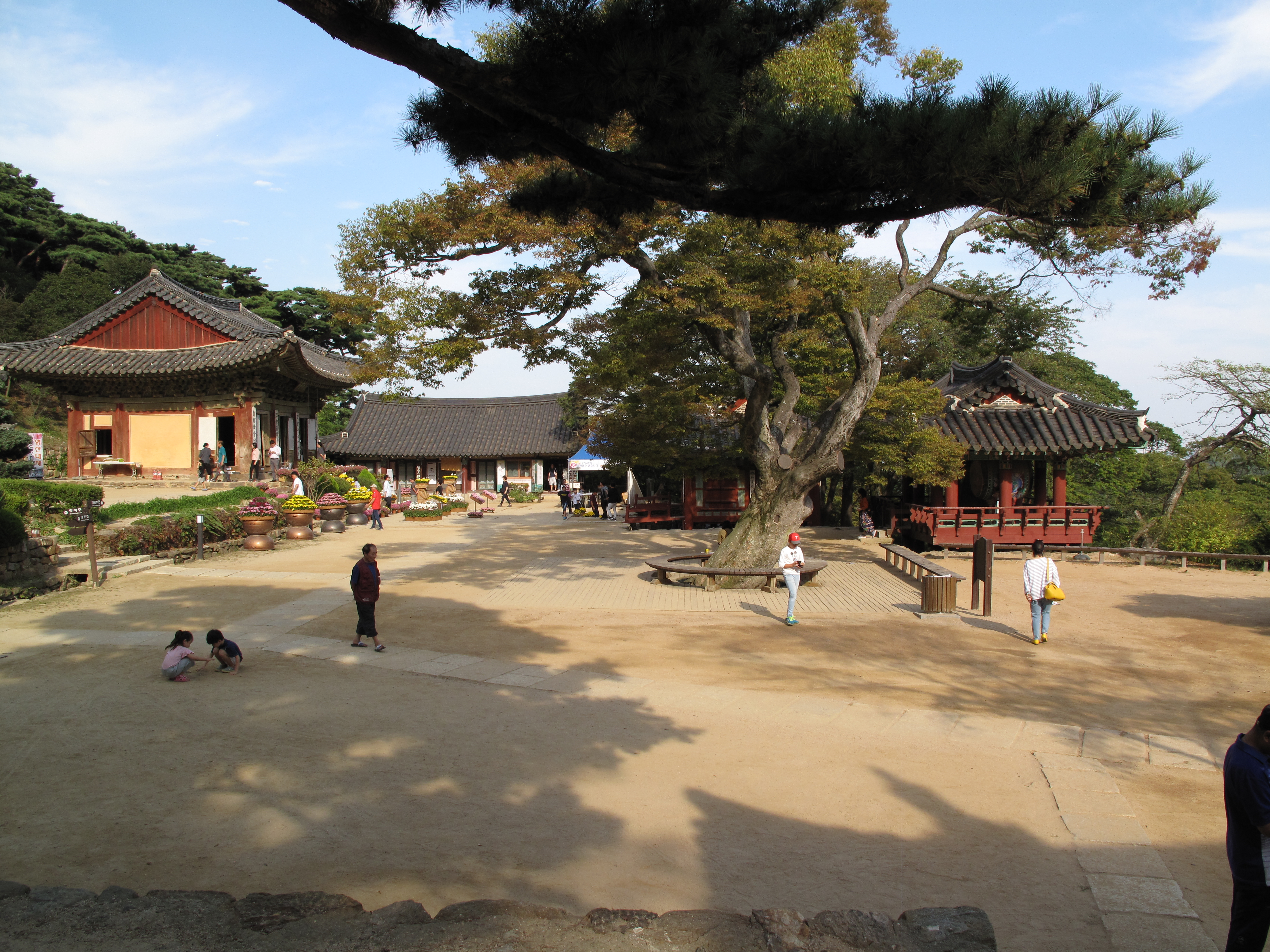 General view of the temple courtyard. Its entrance gate, Daejoru, is seen at the right of the photo.